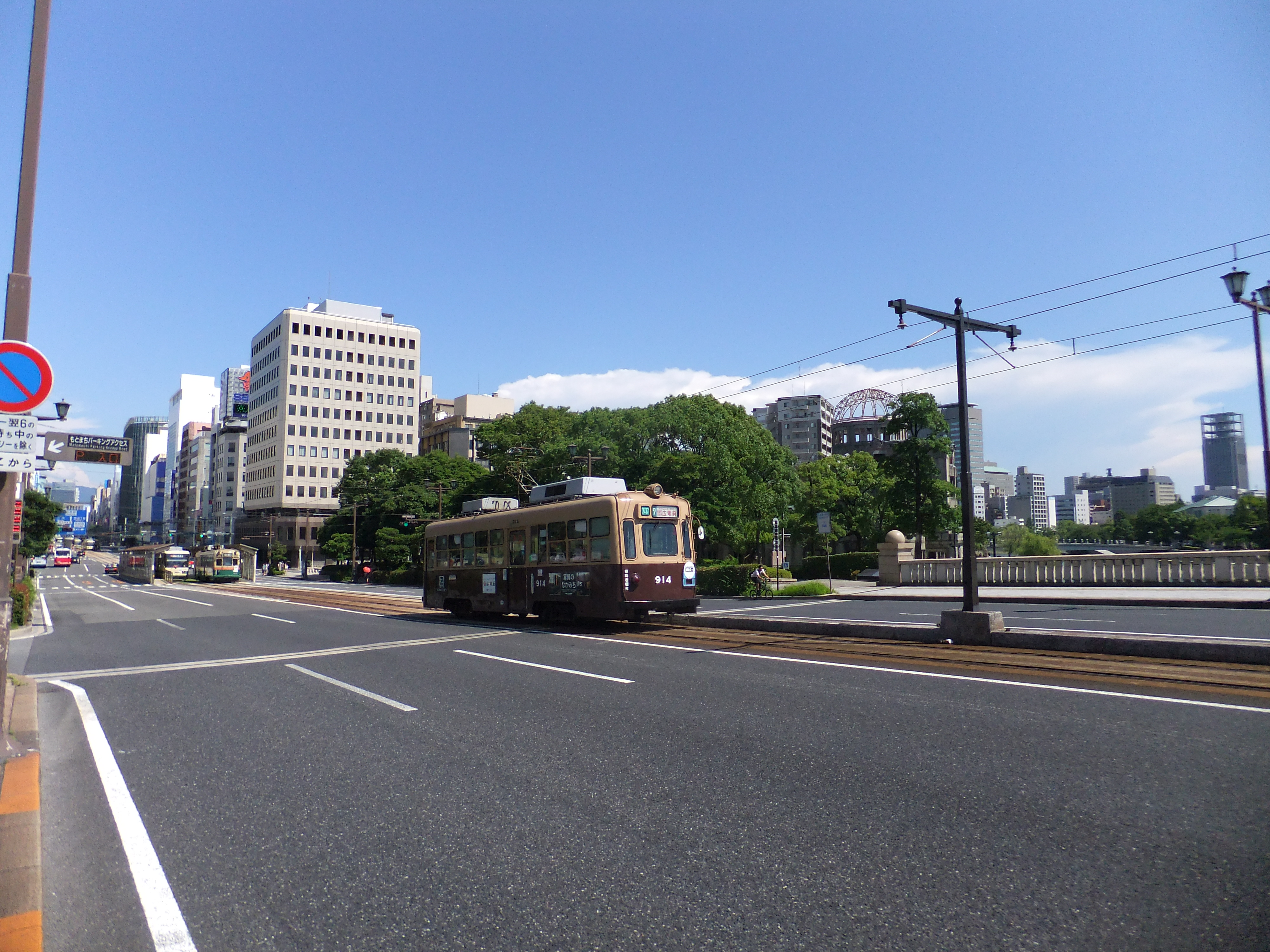 Hiroshima Electric Railway Main Line near the Atomic Bomb Dome and Aioi Bridge